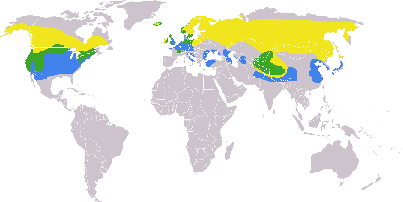 Mergus merganser, distribution, yellow:summer, blue:winter, green:year-round